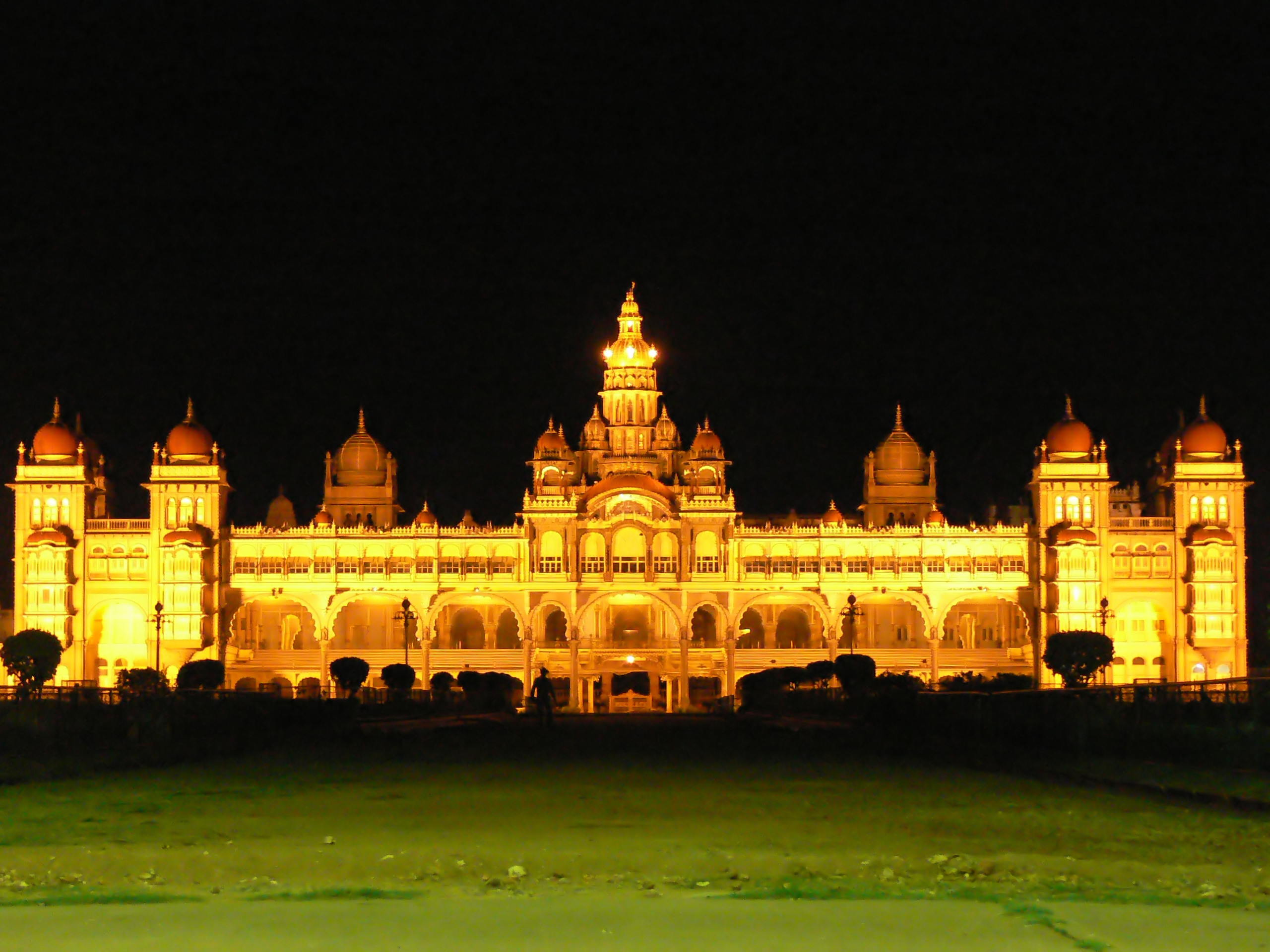 Illuminated Mysore palace at night